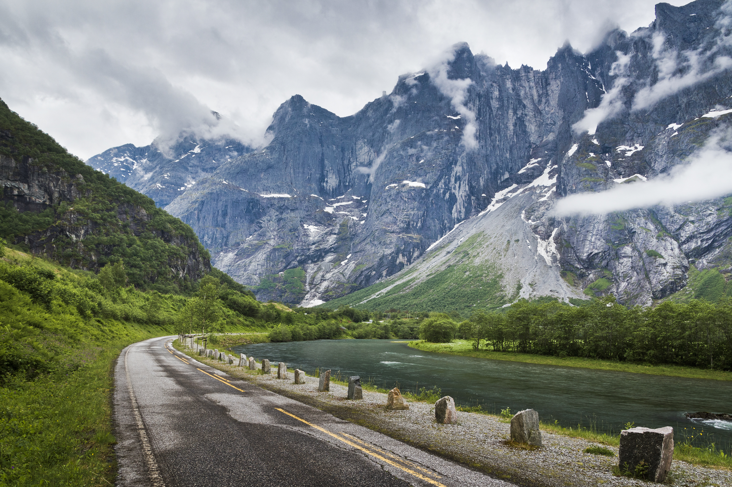 A view to Romsdalen from Vadstranda by the Rauma river in 2013 June. The mountains above belong to Trolltindene group. Among them is Trollveggen, one of the tallest pure vertical mountain faces in the world.